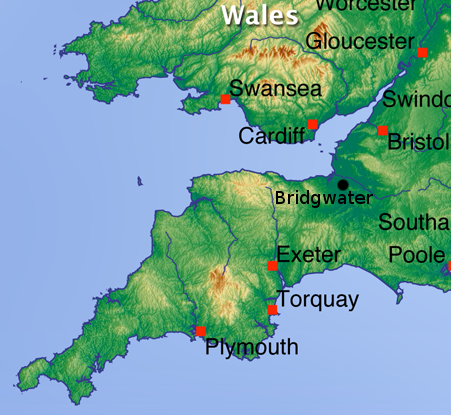 Topographic